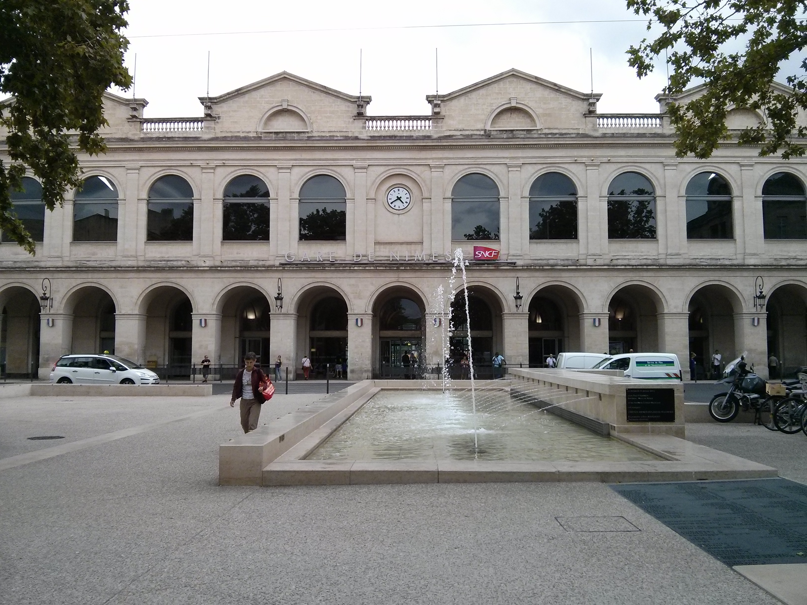 Nîmes train station